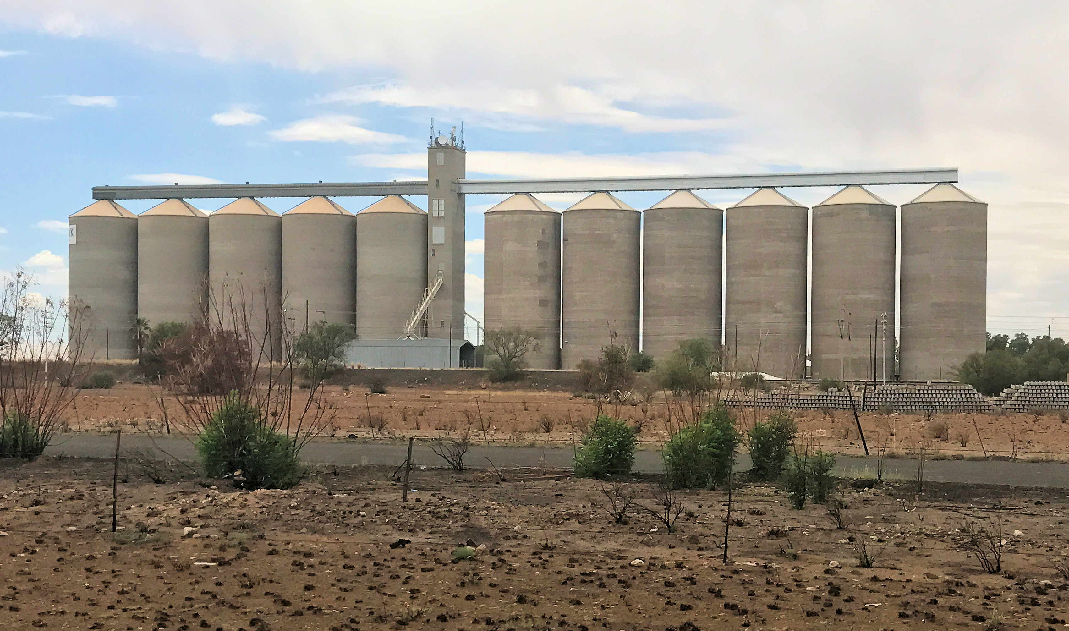 GWK Grain Silos at Modderrivier station, Modderrivier, Northern Cape, South Africa